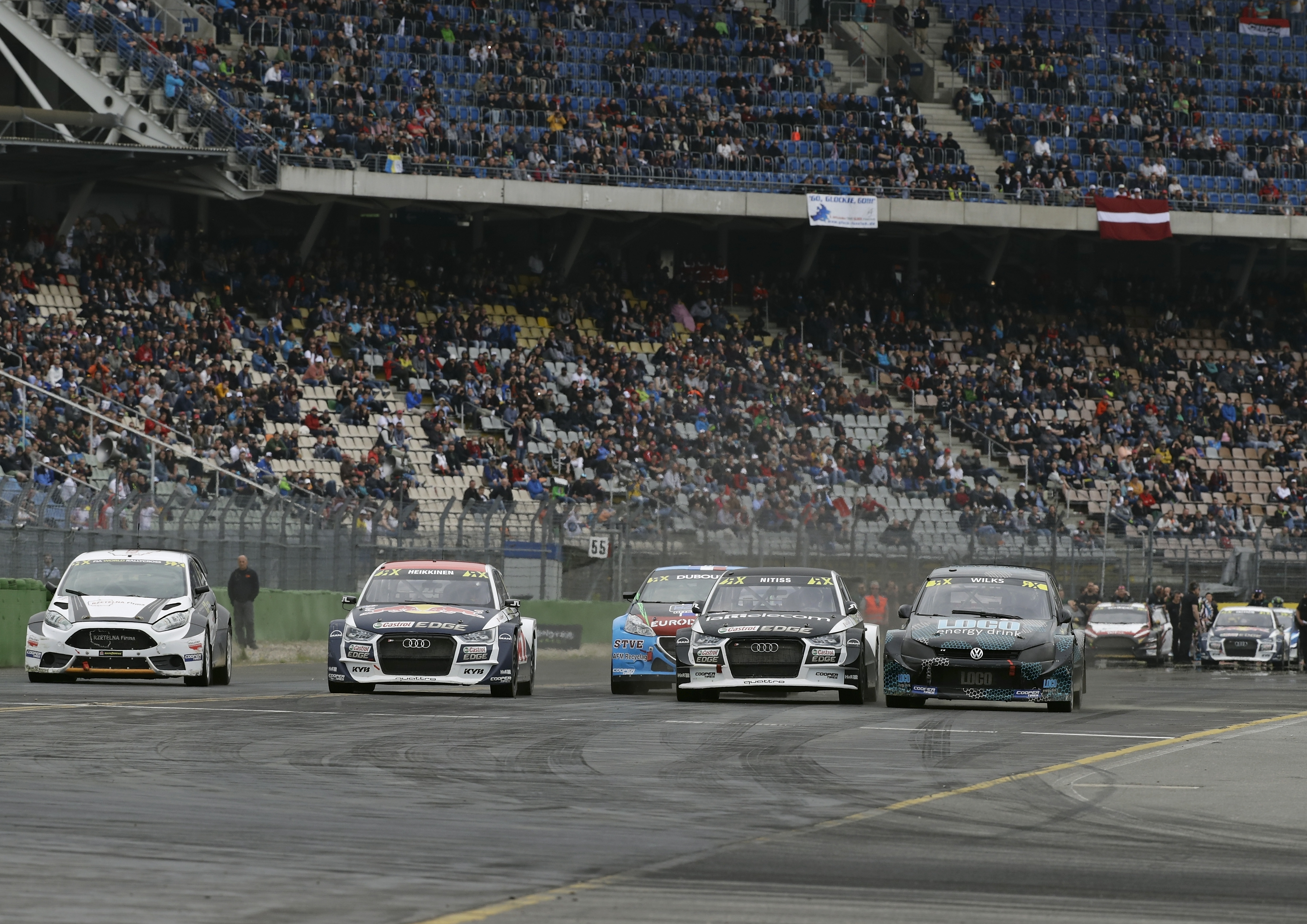 2017 FIA World Rallycross Championship // Round 03, Hockenheim // Credit: EKS/Bodo Kraeling